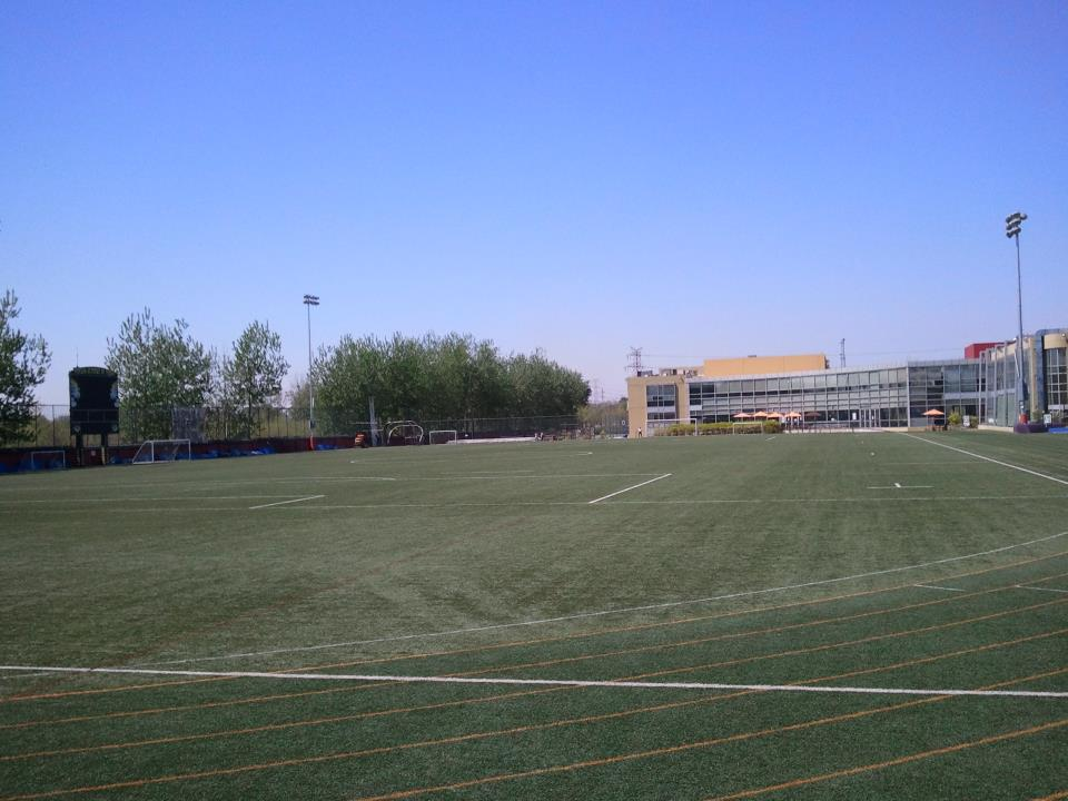 This is my school's sports field. School paid a lot to change to this field. ISB followed WAB to make same field.